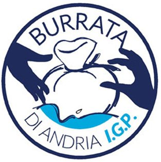 Logo of "Burrata di Andria I.G.P"